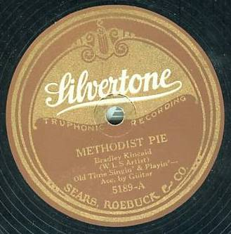 Methodist Pie by Bradley Kincaid, Silvertone 19??.